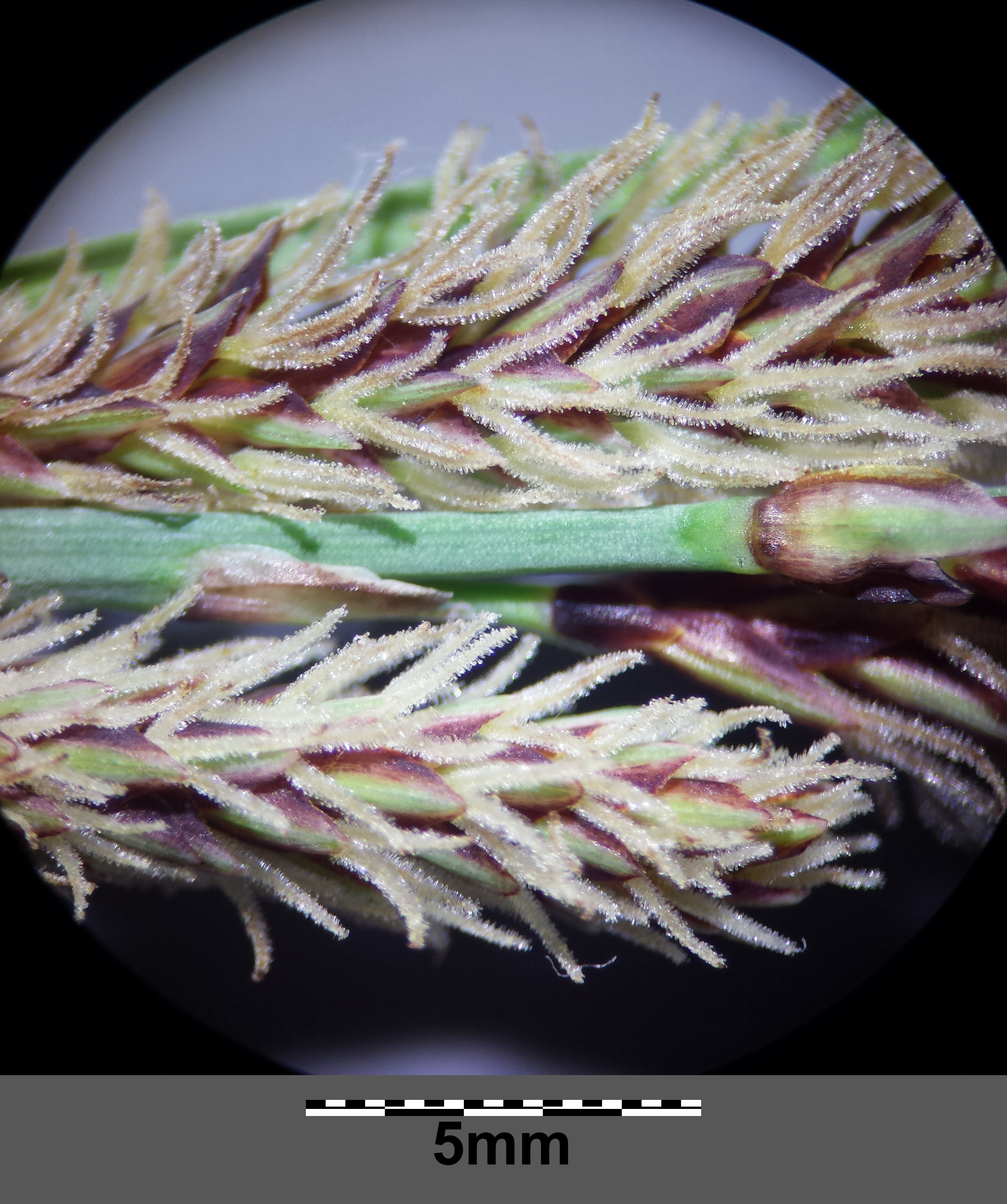 ♀ spikes Taxonym: Carex flacca (subsp. flacca) ss Fischer et al. EfÖLS 2008 ISBN 978-3-85474-187-9 Location: Latschenberg near Altenmarkt im Thale, district Hollabrunn, Lower Austria - ca. 330 m a.s.l. Habitat: semi-dry grassland